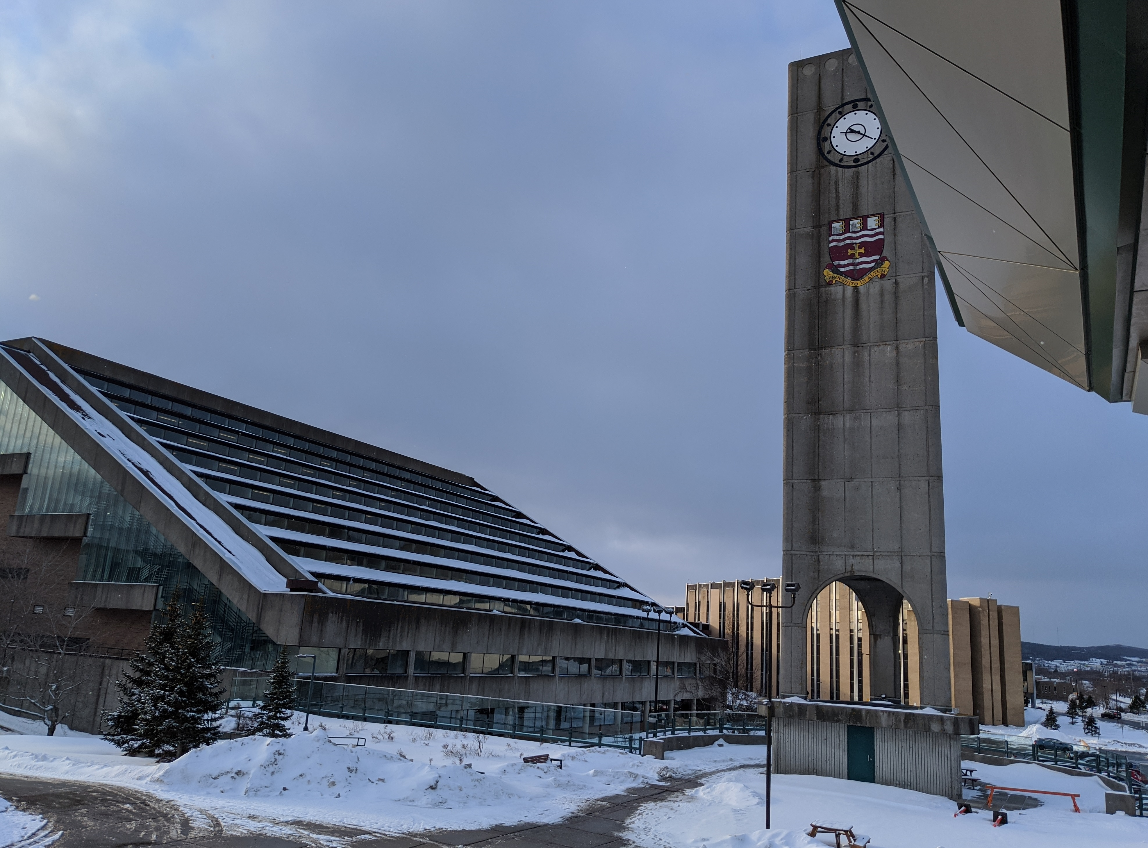 A shot of QEII Library and the MUN Clock Tower. St John's, Nfld., Canada.